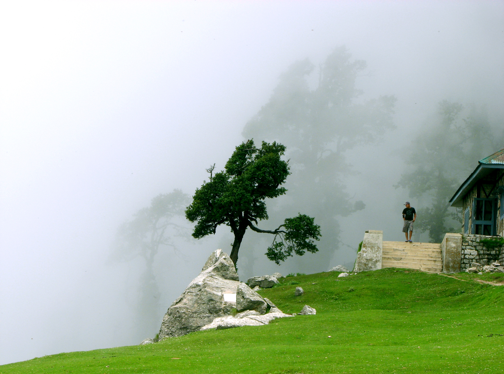 View it on black on my Blog This is Triund. At 2900 Mts above sea level, 9 kms away from Indrahaar pass, Southern Himalayan Range (Dhauladhar Range). There is no electricity here but just some solar battery panels. The only food available was Maggi and Rice. No motorable road from McLeod Gunj to Triund which is 9 kms away and 1200 mts high. Only 2 sheds which can provide shelter at night other than the tea/snack shaks. P.S - View this photo in the large size to appreciate the full beauty. A wallpaper material. Here is another picture which i recently found on the net capturing a similar view of the same location.